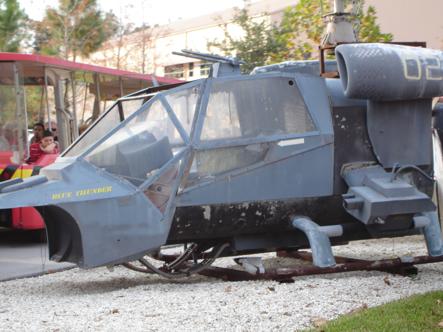 Blue Thunder, MGM Studios Back-lot tour. (Left view)